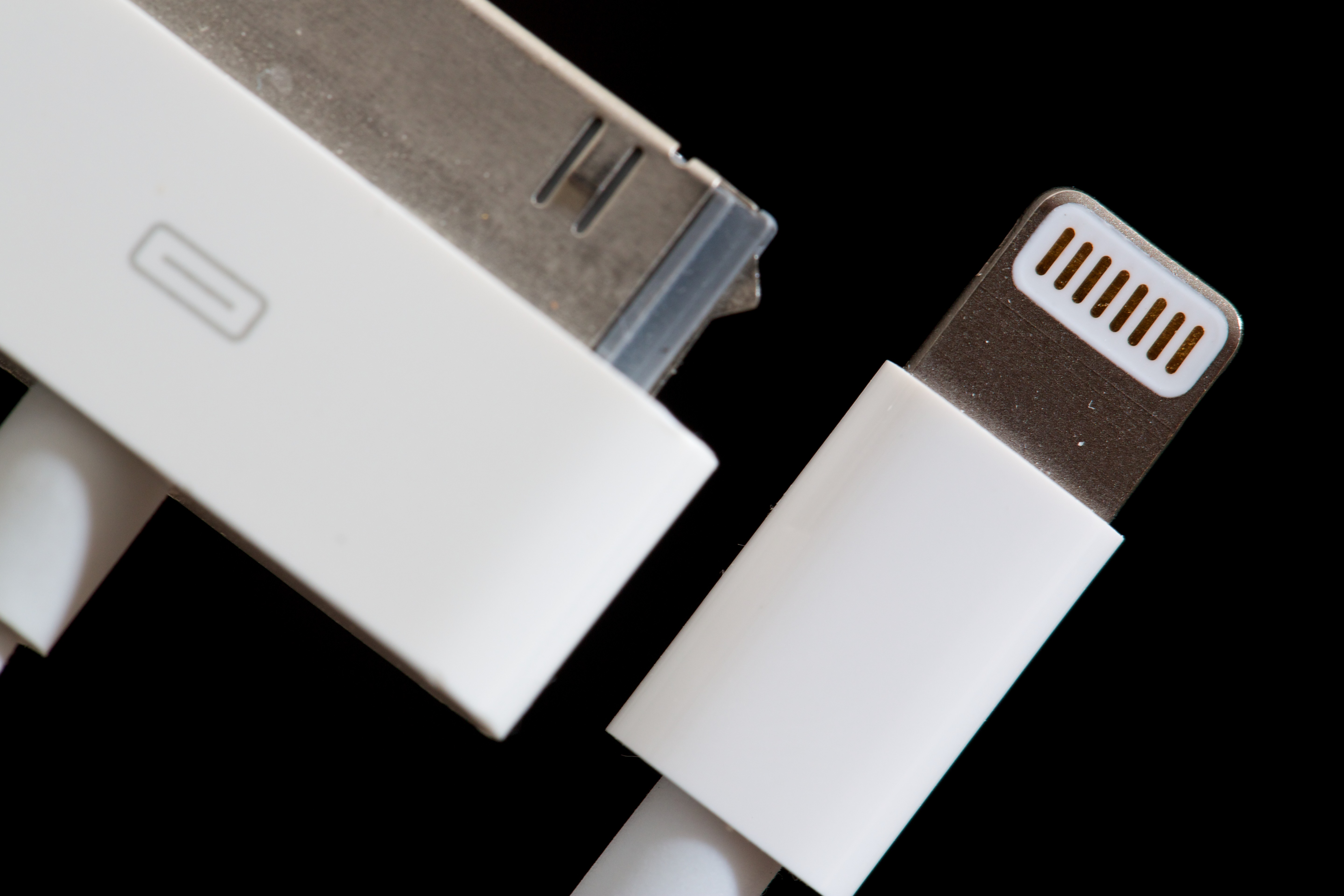 Side by side: Apple's old 30-pin "Dock Cable" (left) with the new "Lightning Cable" (right)